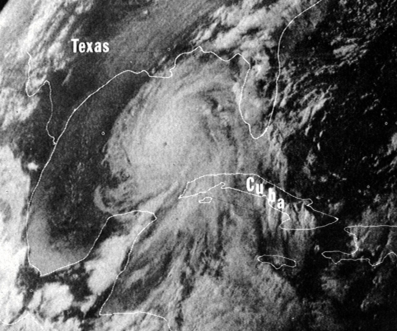 Hurricane Camille on August 16, 1969. Image capture by NASA's ATS III satellite.